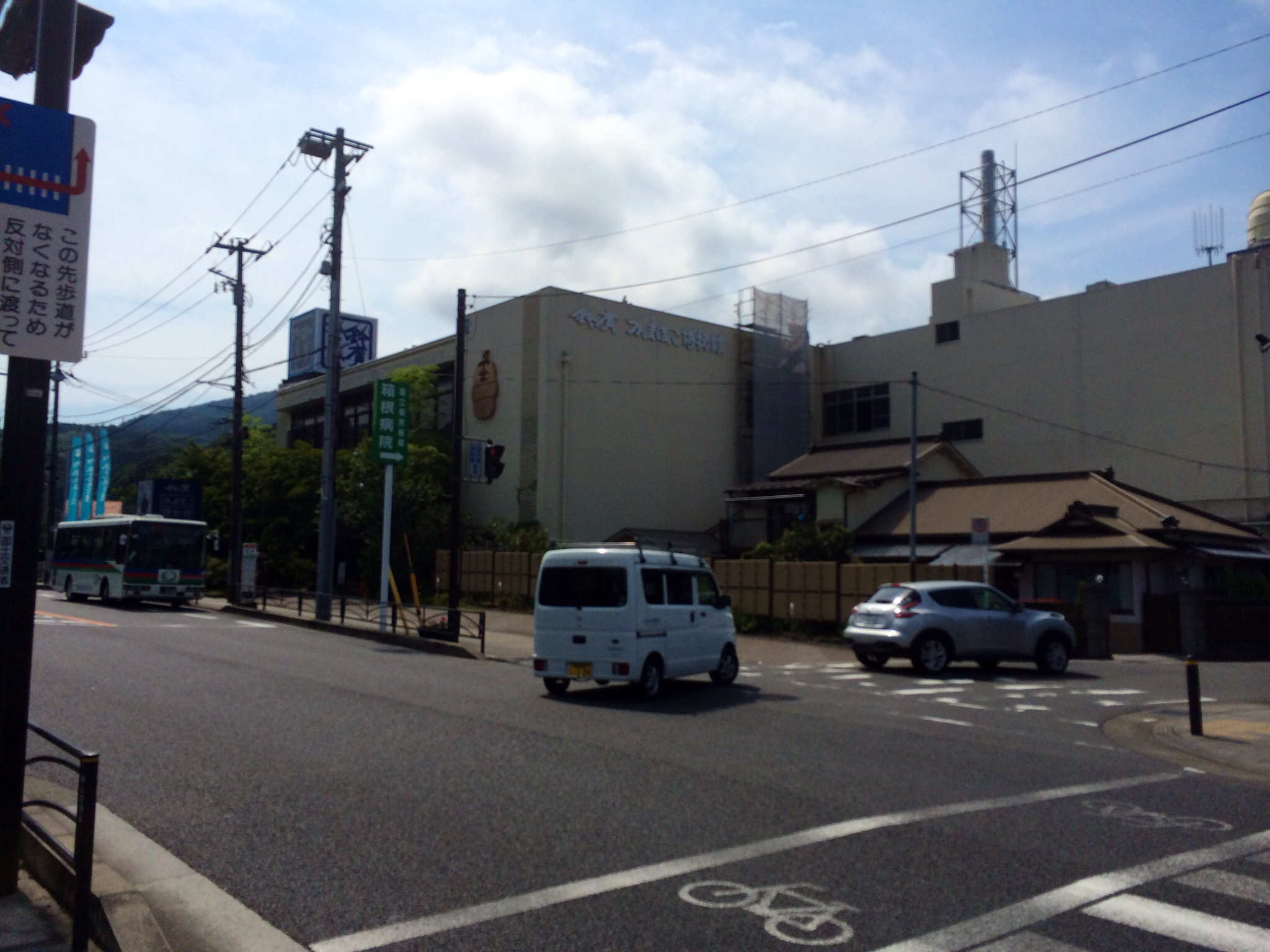 Suzuhiro Fishcake Museum in Odawara.Kanagawa